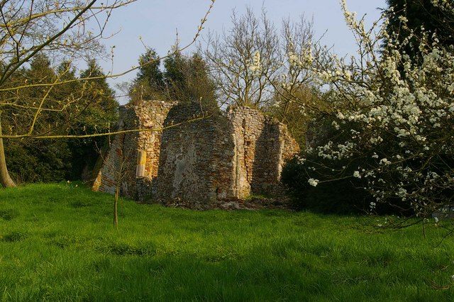 These are the remains of Virley, Church, the structure was unsafe by 1879 it finally succumbed to the Great Colchester Earthquake of 1884 for more info its near neighbour also called St Mary's still survives.